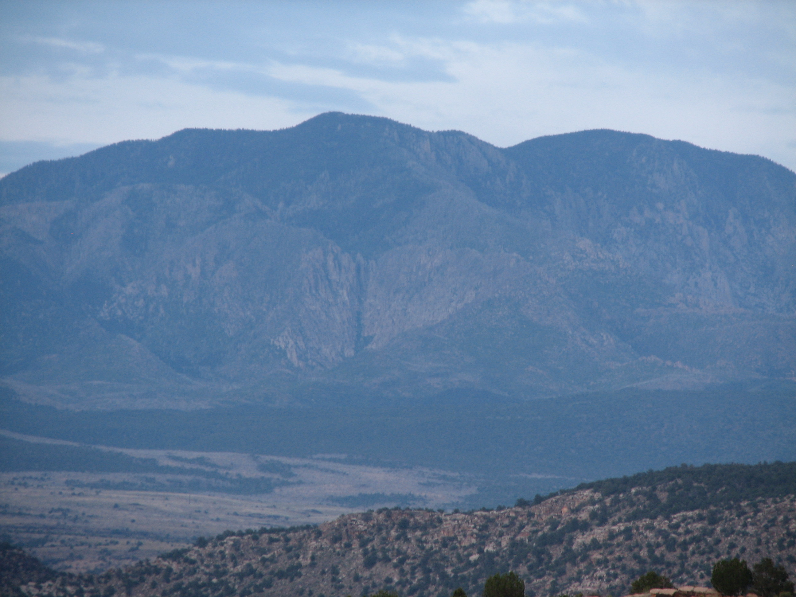 Photo of Pine Valley Mountain in Washington County, Utah, USA. The left-most peak is Burger Peak (10,321' elevation) and the right-most is Signal Peak (10,365' elevation).